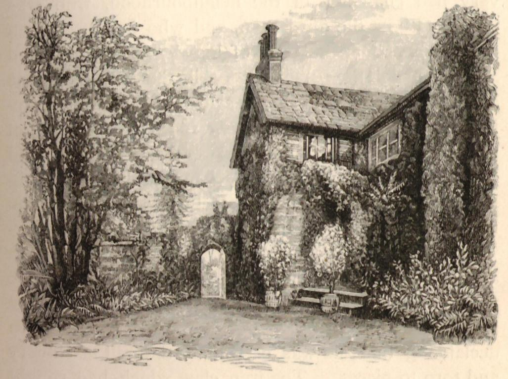 Augustus John Cuthbert Hare (13 March 1834 – 22 January 1903) was an English writer and raconteur. Drawings of his house at Holmhurst St Mary near Hastings. Agnes Mason uised this house as a convent. Guess these drawings at 1885